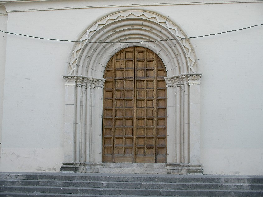 The portal of the church of Saint Reparata to Casoli